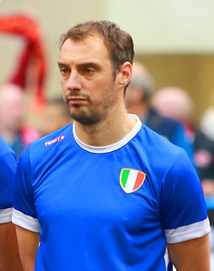 Dino Baggio, Cristian Zenoni, Marco Delvecchio